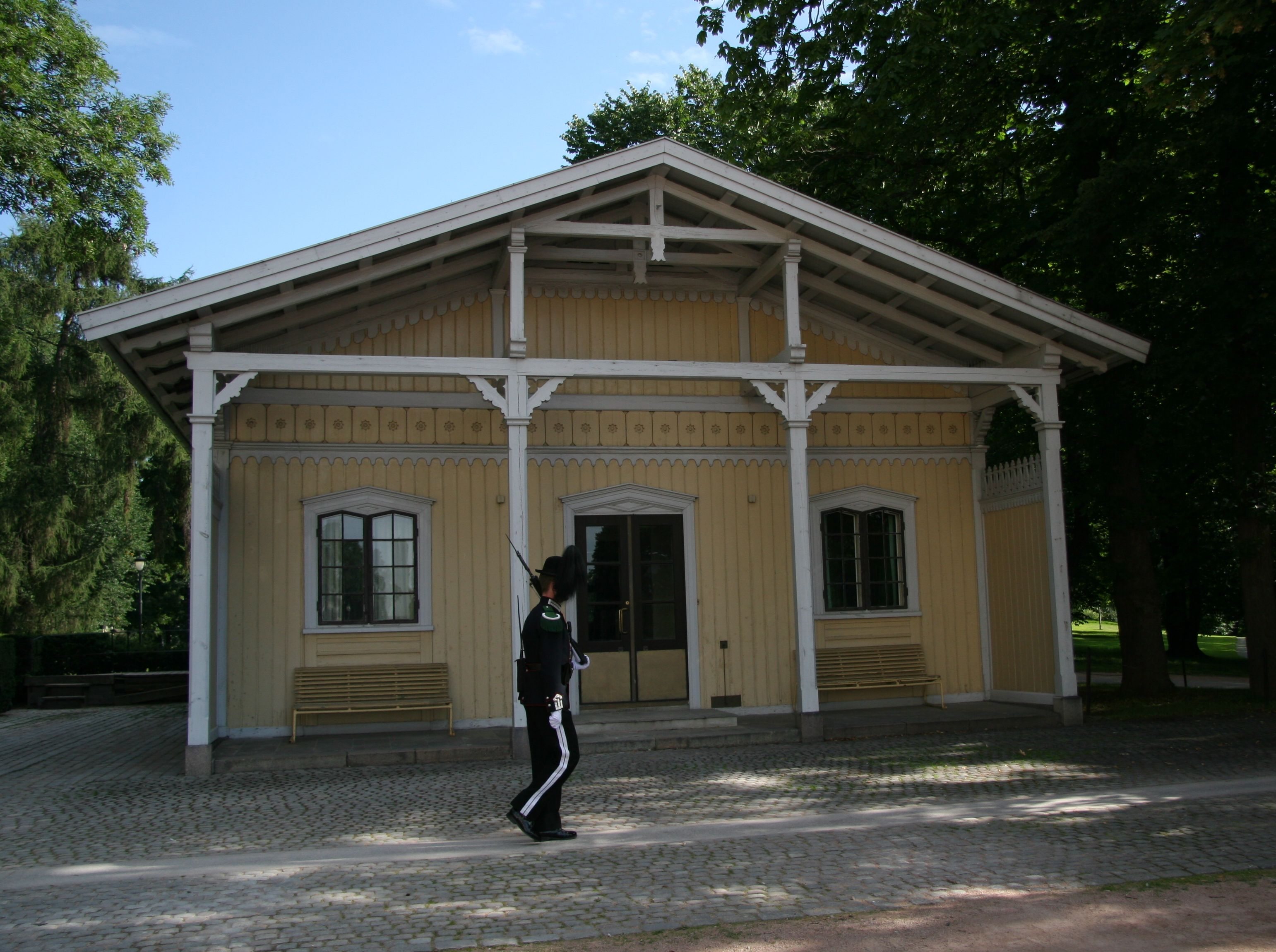 House near Royal Palace. Oslo, Norway